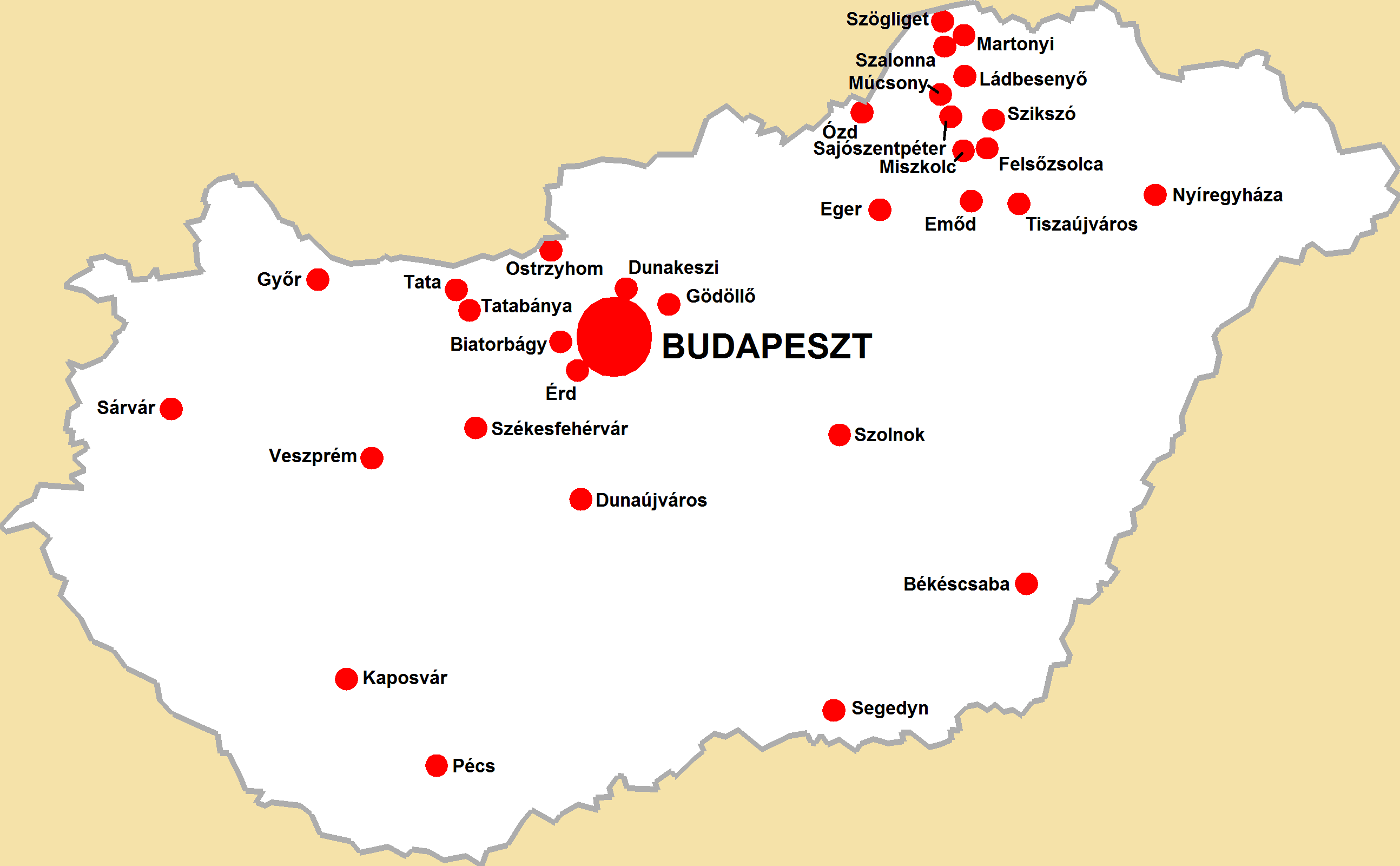 Ethnic Poles minority self-government location